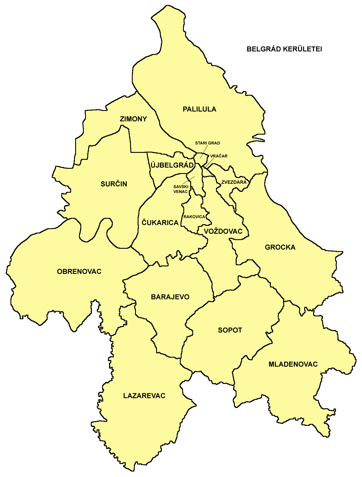 Municipalities of Belgrade.